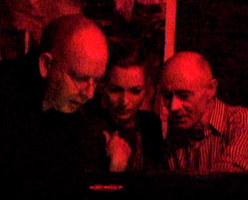 Alan McGee, Kate Moss, and BP Fallon DJing at Death Disco NY in 2004[1]. I took this photo and release it for wikipedia use under the GFDL. Wwwhatsup 05:16, 1 March 2007 (UTC)